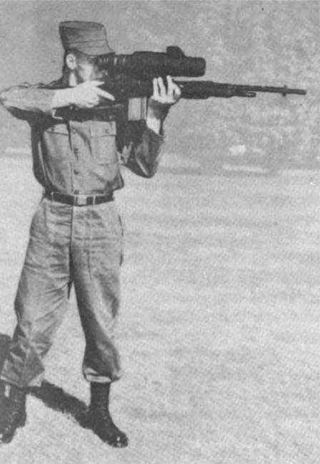 M14 night light sight